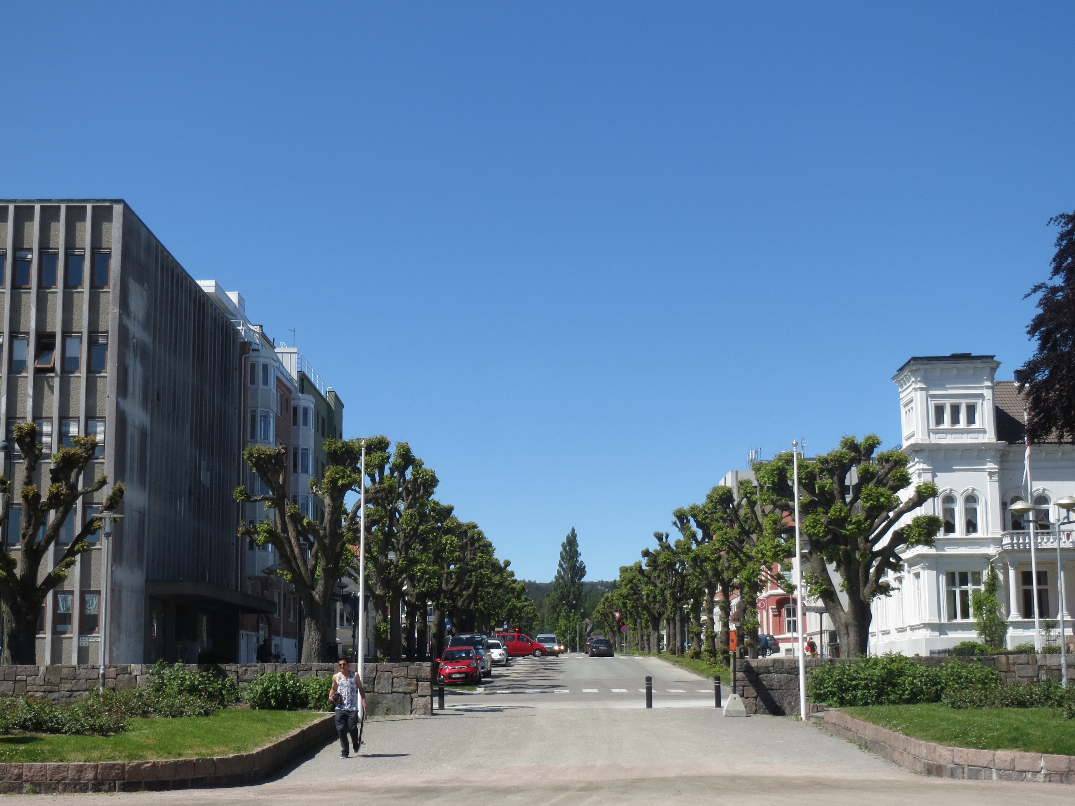 Festningsgata, Kristiansand, Norway